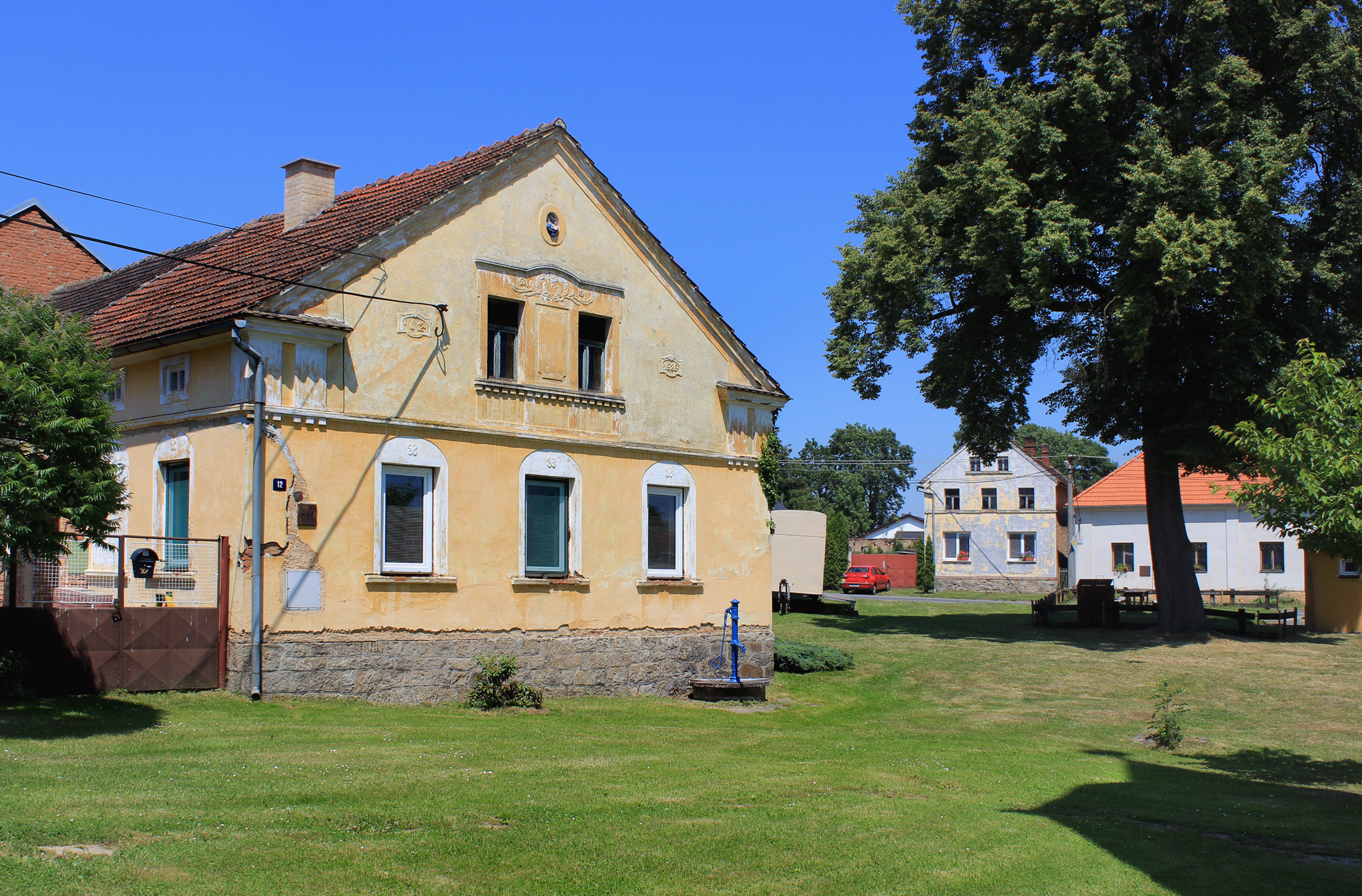 Common in Velký Malahov, Czech Republic.